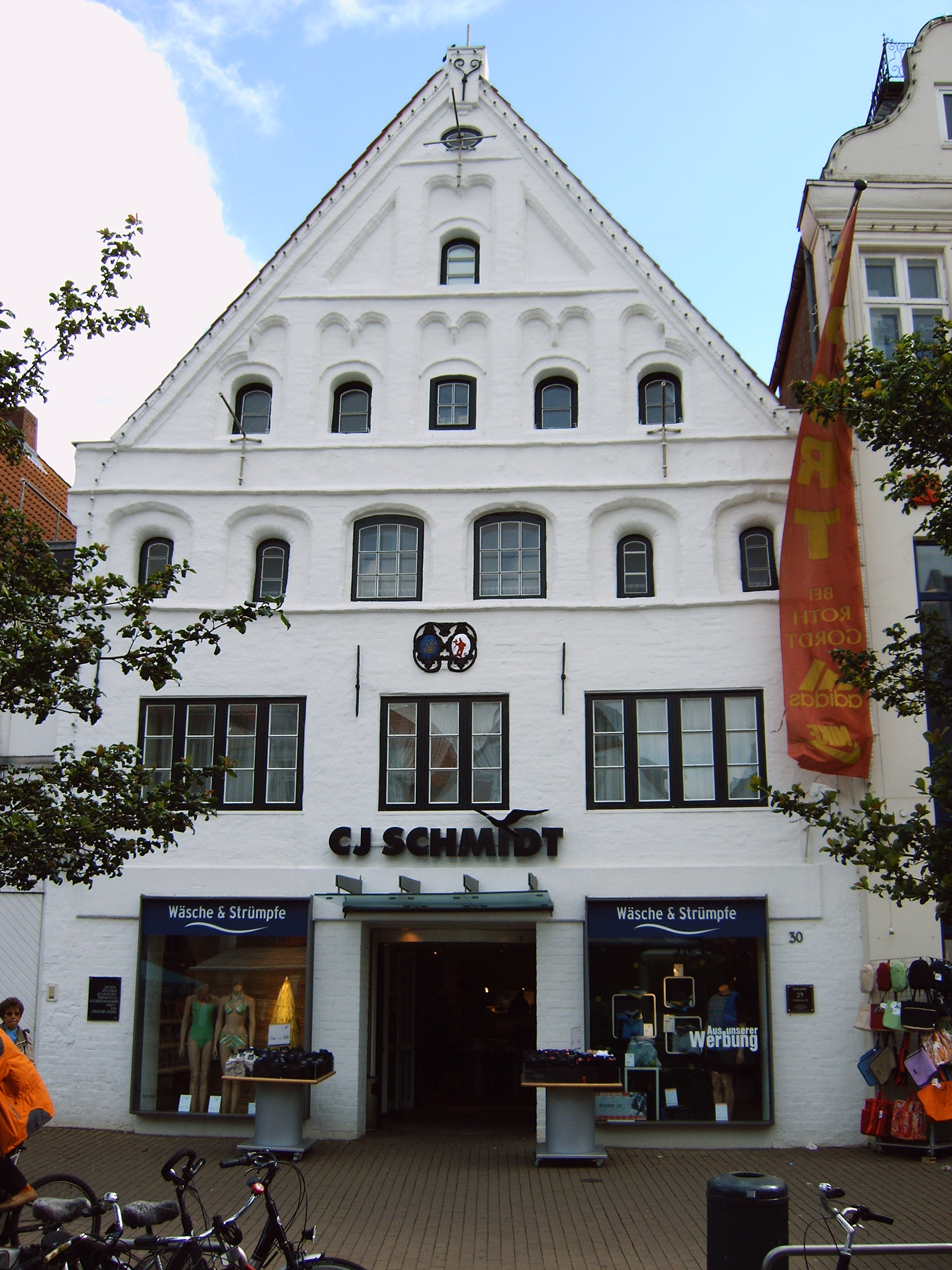 Location of Theodor Storm's novel "Drueben am Markt"